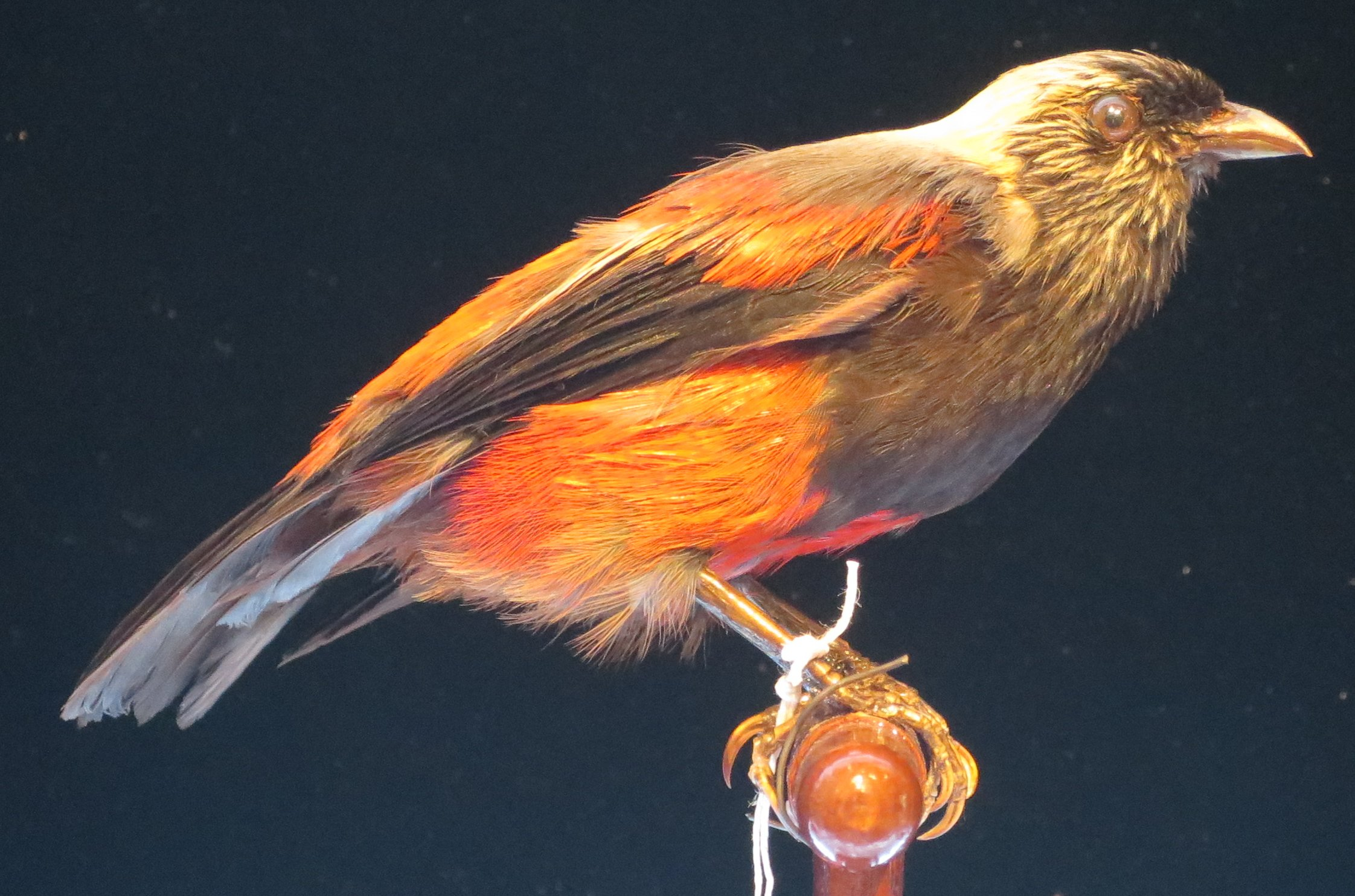 Ciridops anna Dole (Ulaaihawane), Bishop Museum, Honolulu